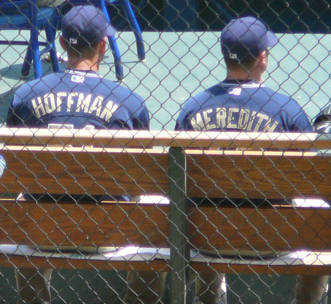 Please attribute this photo by name if used in places other than Wikipedia. 06:10, 29 May 2008 . . Chrisjnelson . . 650×596 (444 KB)